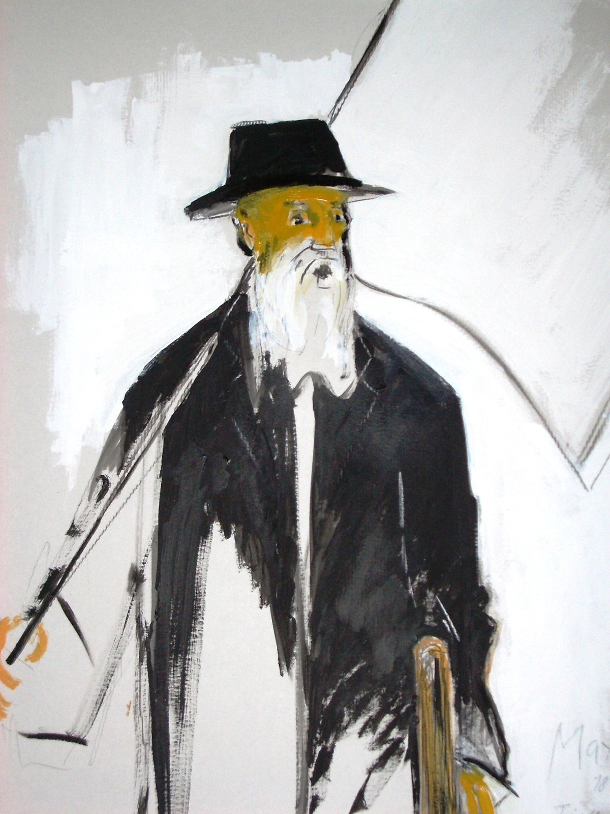 Portrait of the Swiss pacifist Max Daetwyler at the Peace Exhibition, Zurich, Switzerland